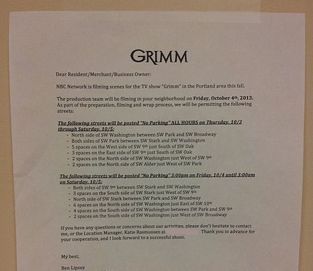 Production notice for the television series Grimm, posted in the Pittock Block in downtown Portland, Oregon (2013)